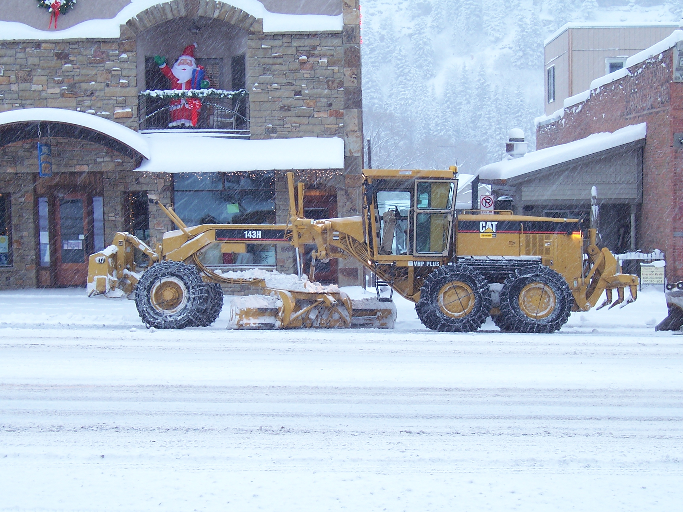 Originally from the English Wikipedia at Image:143h.jpg. Photographed by User:Dictouray.